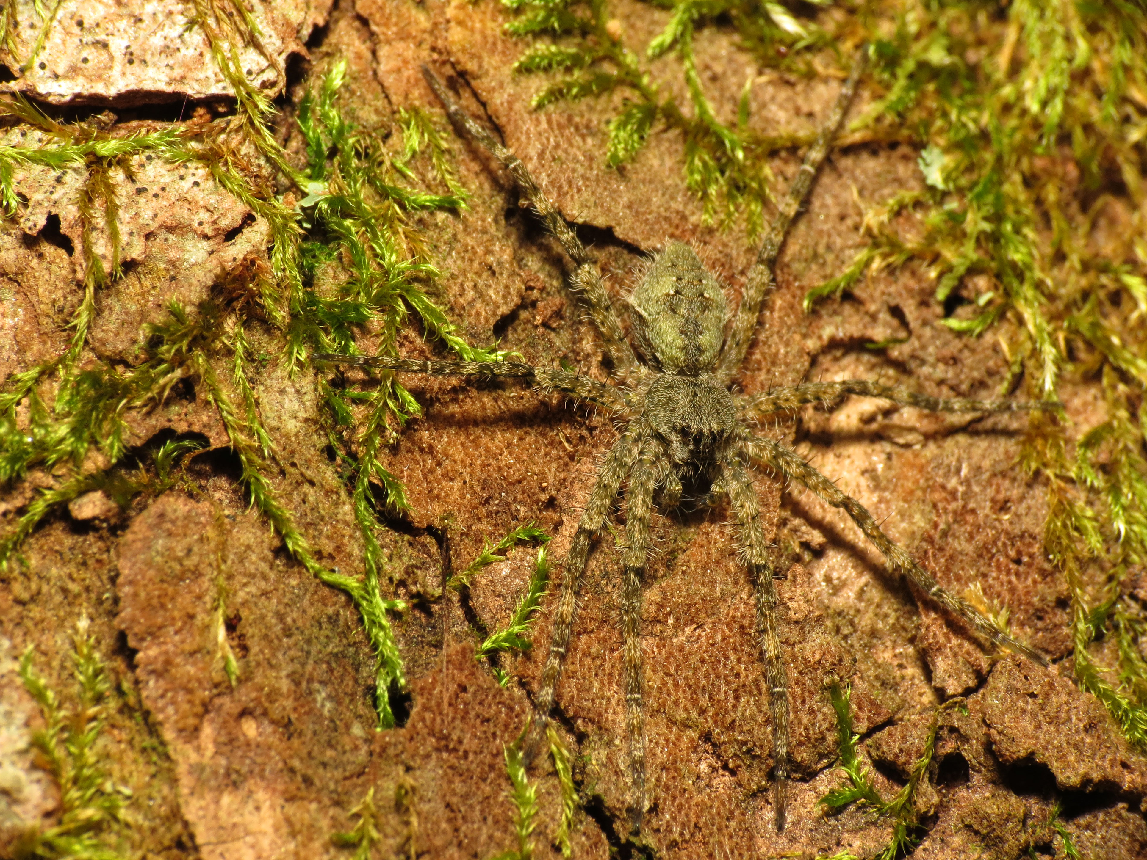 Dolomedes albineus. Rock Creek Park, Washington, DC, USA